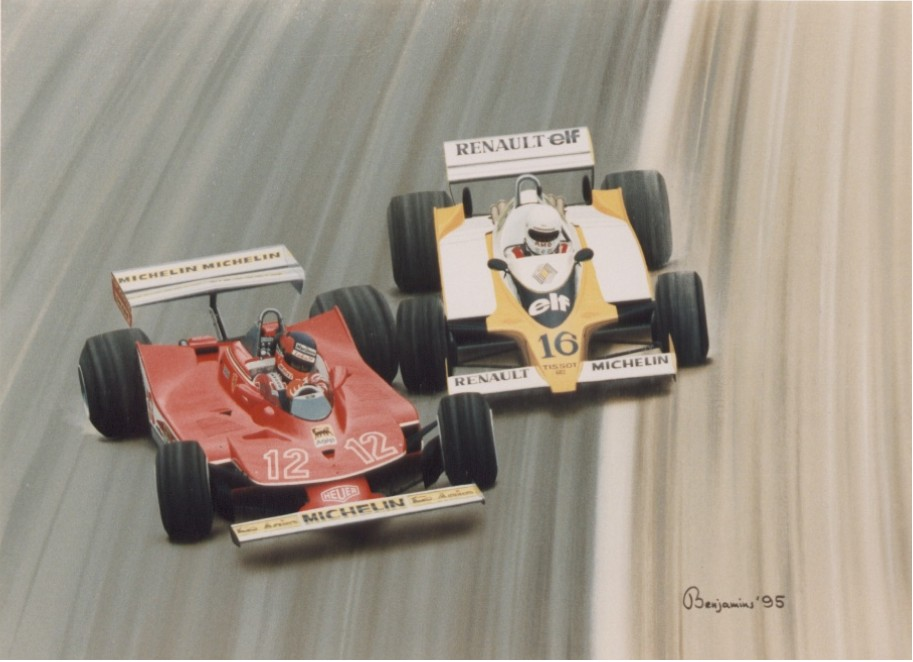 Description: This is a painting by Arthur Benjamins. Source: Supplied by artist to uploader; available in lesser quality at Date: 1995 Author: Arthur Benjamins Permission: OTRS permission granting GFDL v 1.2 or later and CC-BY-SA. See Ticket:2009051710015187